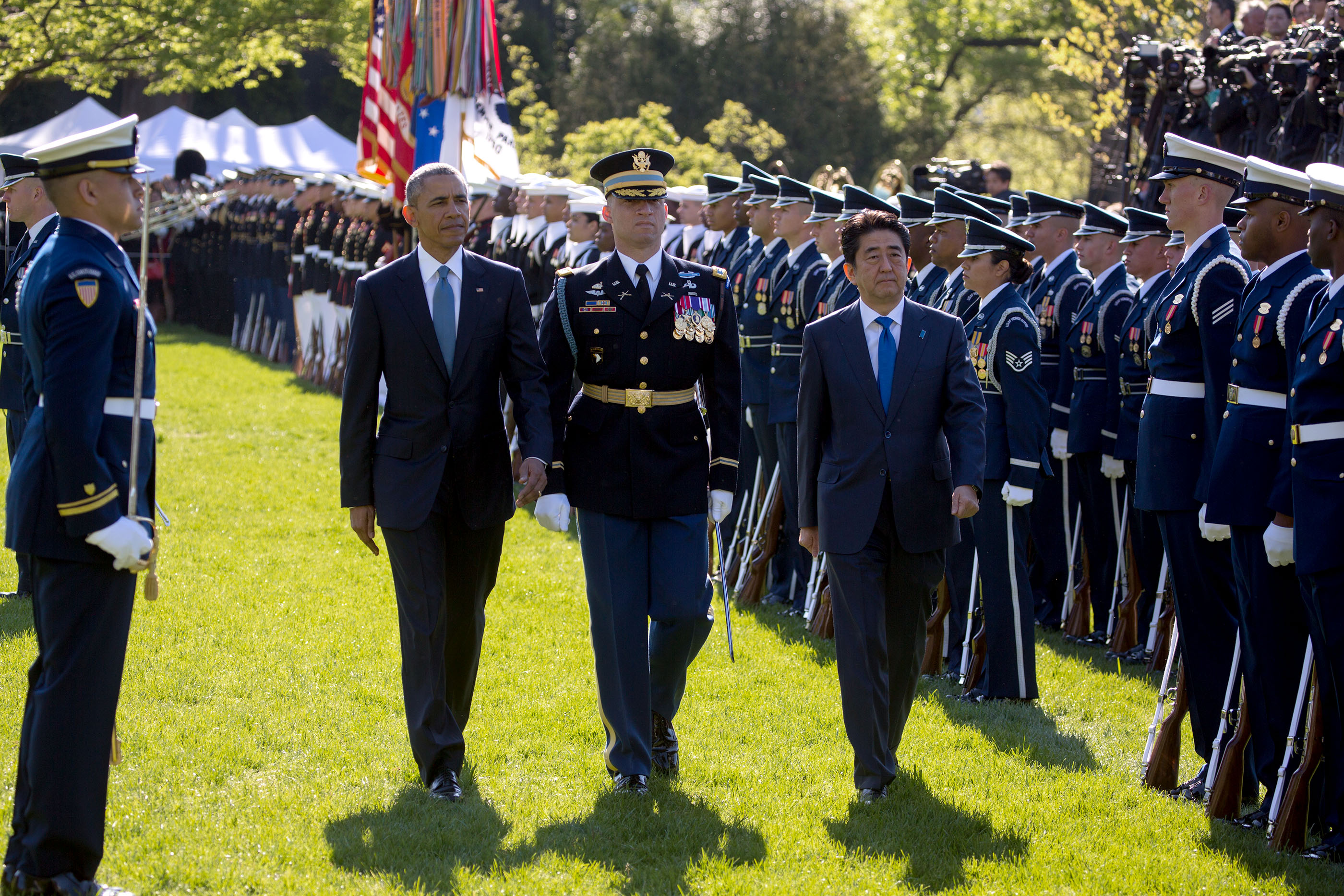 The President and Prime Minister review the troops.